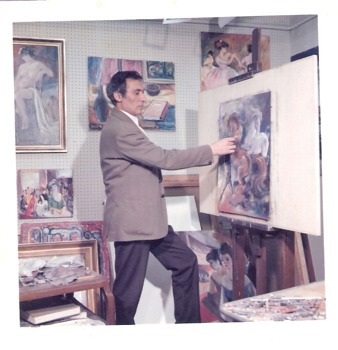 image of DIEGO Voci painting in studio DIEGO Painting in Schlossgalarie studio 1963